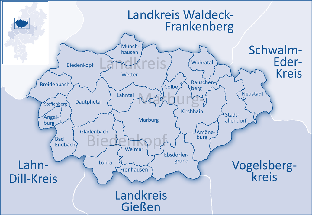 The map shows the municipal territories in the district of Marburg-Biedenkopf